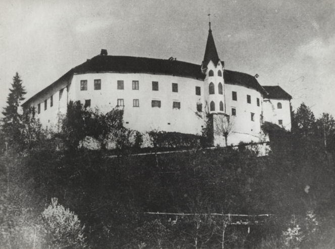 Klevevž (Klingenfels) castle before WW2.